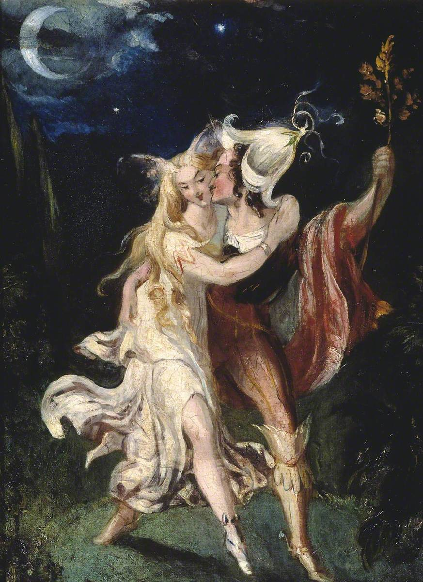 Theodor Richard Edward von Holst (1810— 1844); The Fairy Lovers; Tate